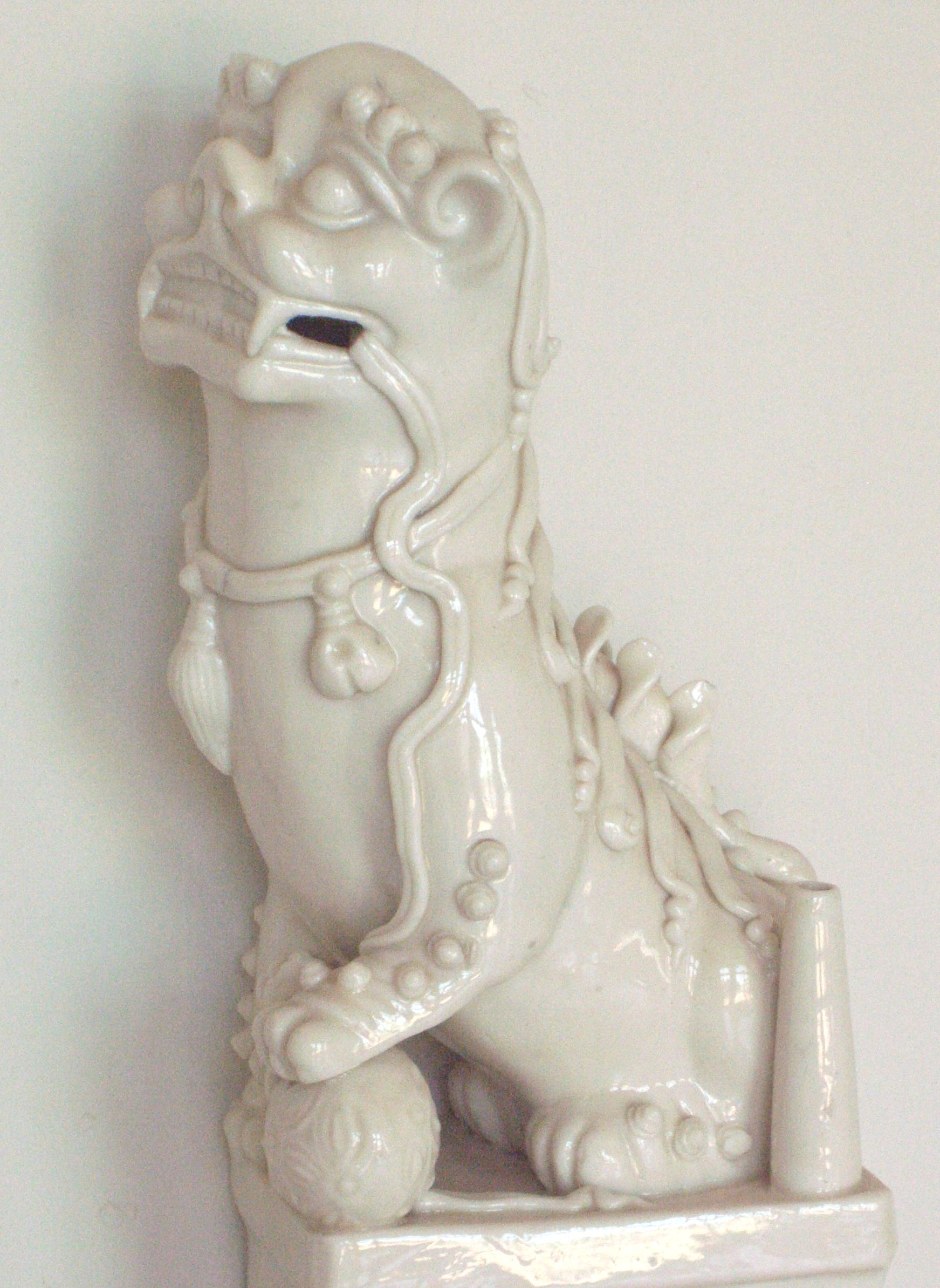 Qilin (Animal of Chinese Mythology) - Statue made of Dehua-Porcelain during the Chinese Ming Dynasty (1368-1644).